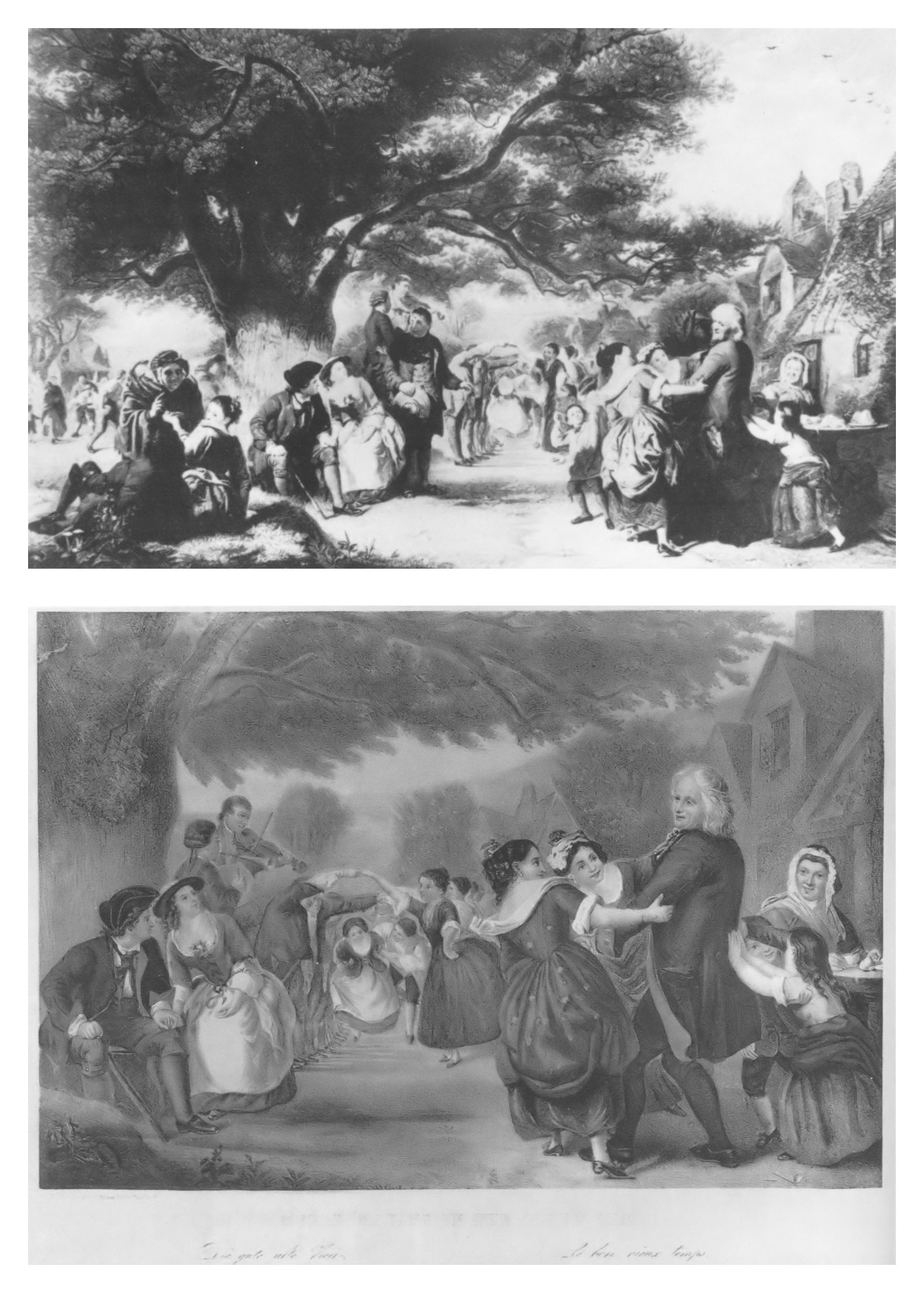 Top: An English Merry Making in Olden Time by William Frith (1847), Bottom: Merry Making in Olden Time, lithography sold by art publisher Fabian Silber (ca. 1860)